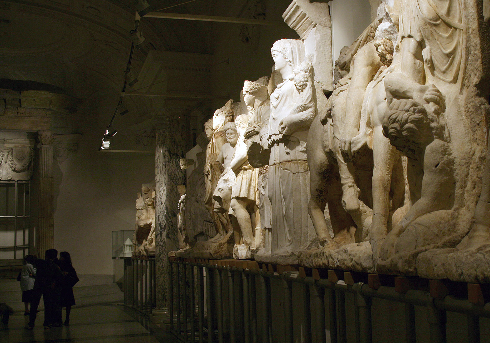 Statues from Ephesos (Ephesos-Museum, Hofburg, Vienna)